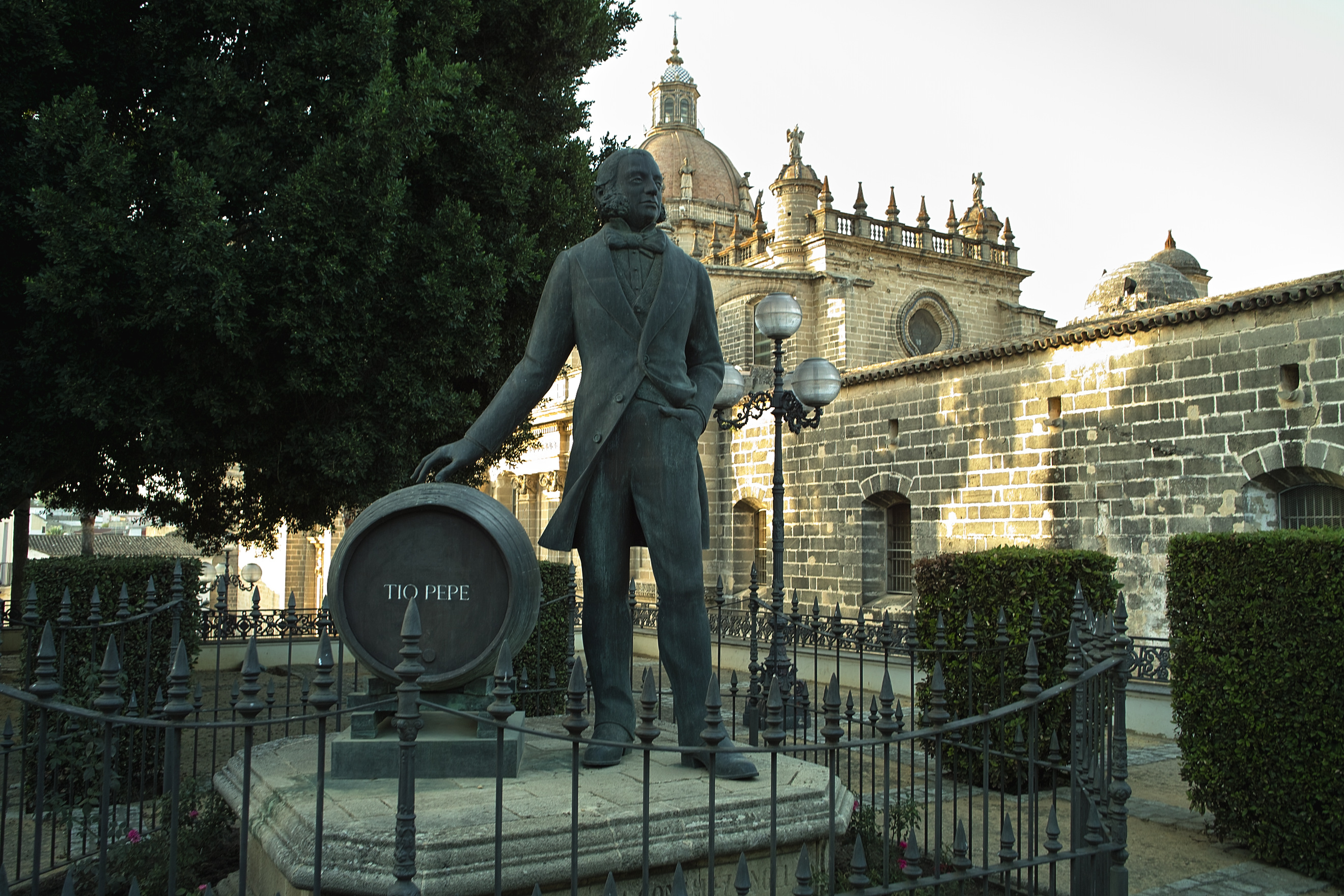 Monument to Manuel Maria González Ángel, founder of González Byass Sherry winery, in Jerez de la Frontera (Spain).